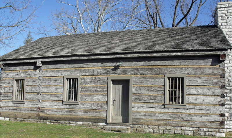 A replica of the first courthouse constructed in Kentucky. It is located in Constitution Square State Historic Site in Danville, Kentucky.